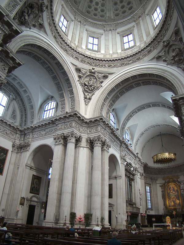 Duomo Nuovo, Brescia, Lombardy, Italy. At the transept crossing under the dome.